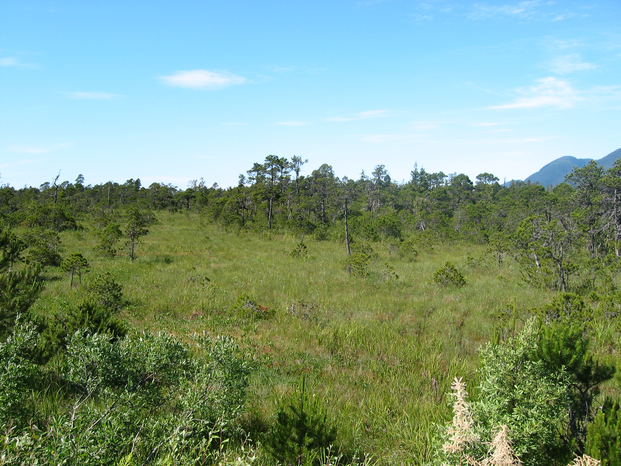 Muskeg with Pinus contorta in Wrangell, Alaska, just south of the airport.